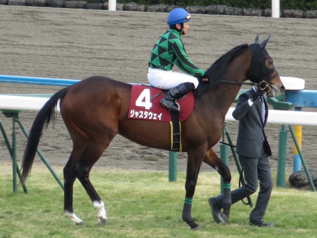 Just a Way (Japanese race horse) in 106th Kyoto Kinen (Kyoto Racecourse).